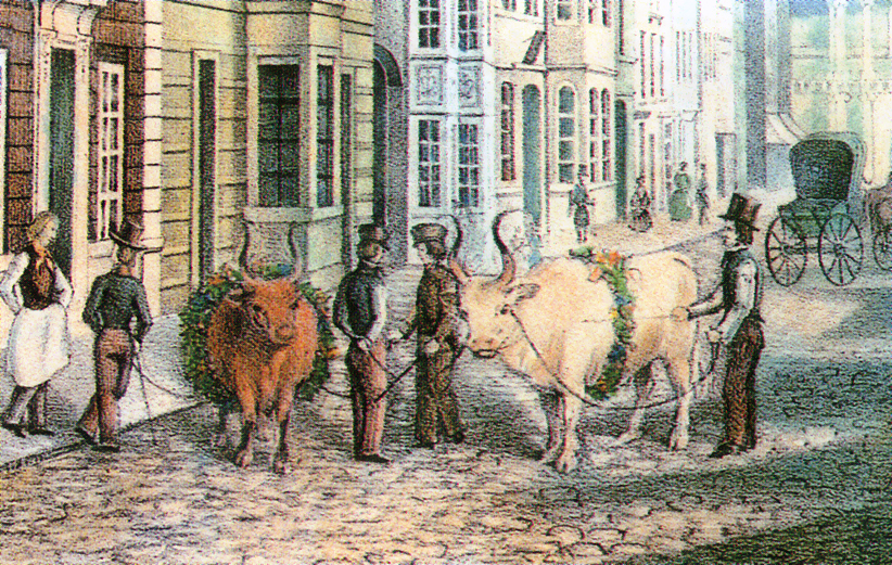 Lithography by Friedrich Wilhelm Kohl showing the Klosterochsen (“Monastery’s oxen”) in the street Obernstraße in Bremen, Germany, around 1845.